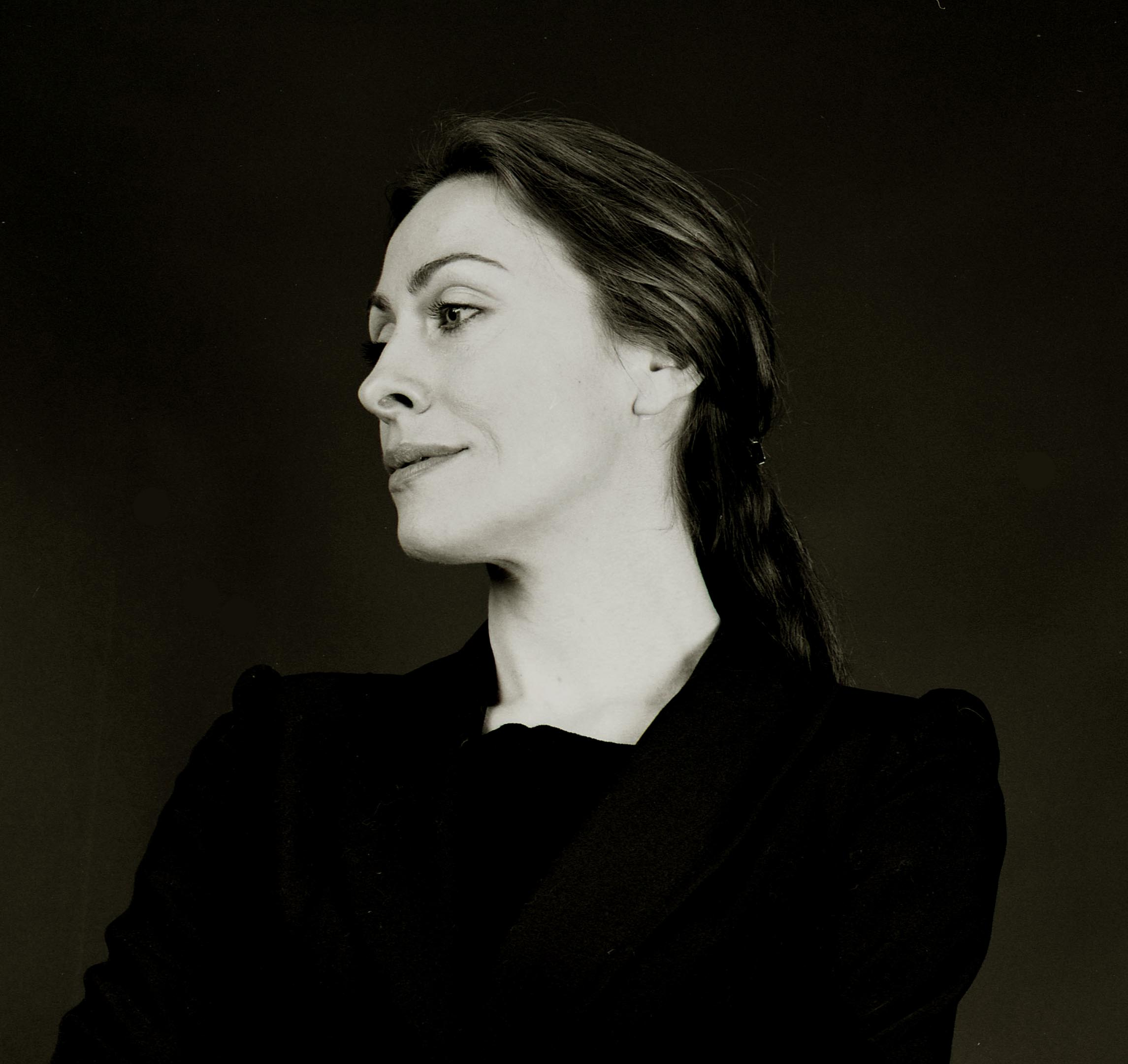 portrait of an artist Stella Feehily